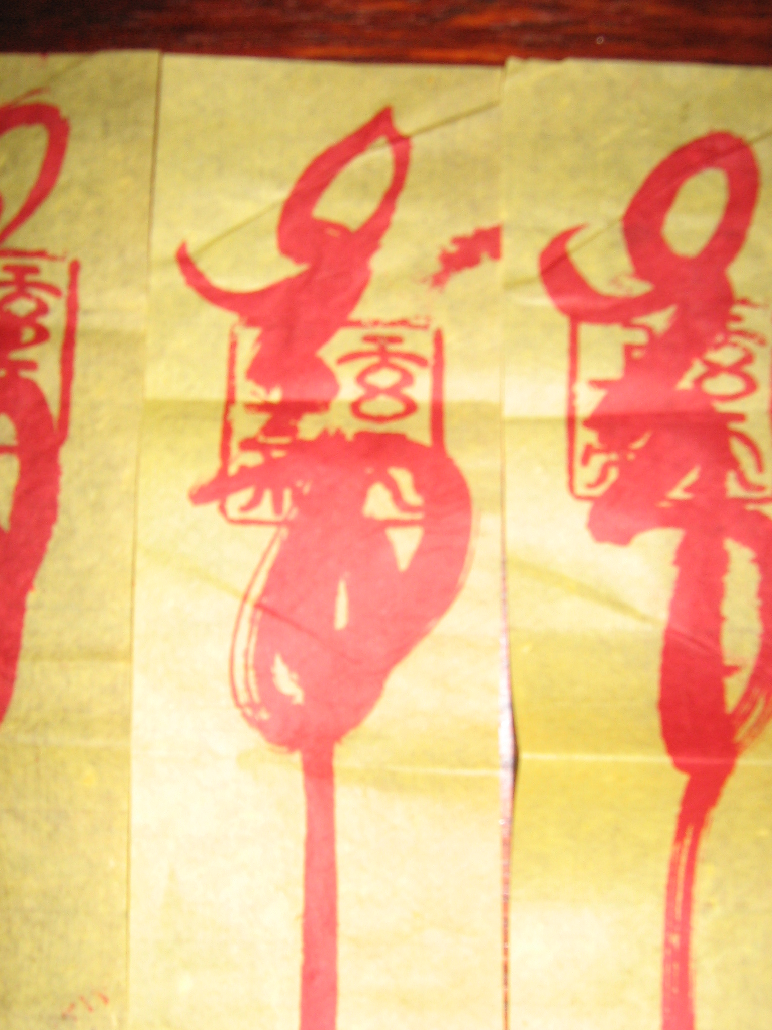 Please Threat this Great amulet with highest Respect and Dignity